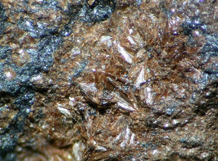 Orientite Locality: Manganese Mine, Copper Harbor, Keweenaw County, Michigan, USA (Locality at ) Brown Orientite. Field of view 8 mm. Specimen and photo Leon Hupperichs.